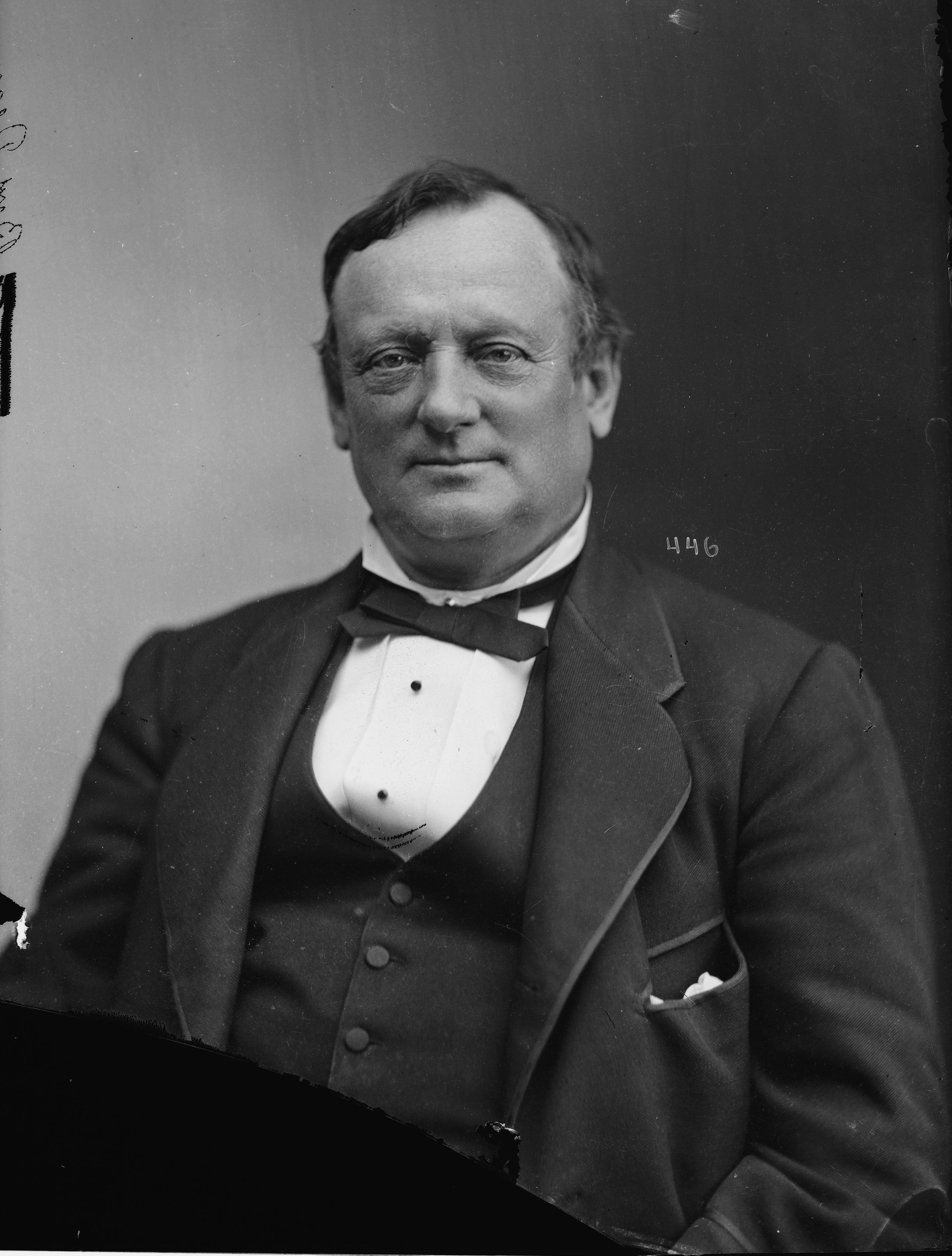 Benjamin Dean. Library of Congress description: "Dean, Hon. Benjamin of Mass"